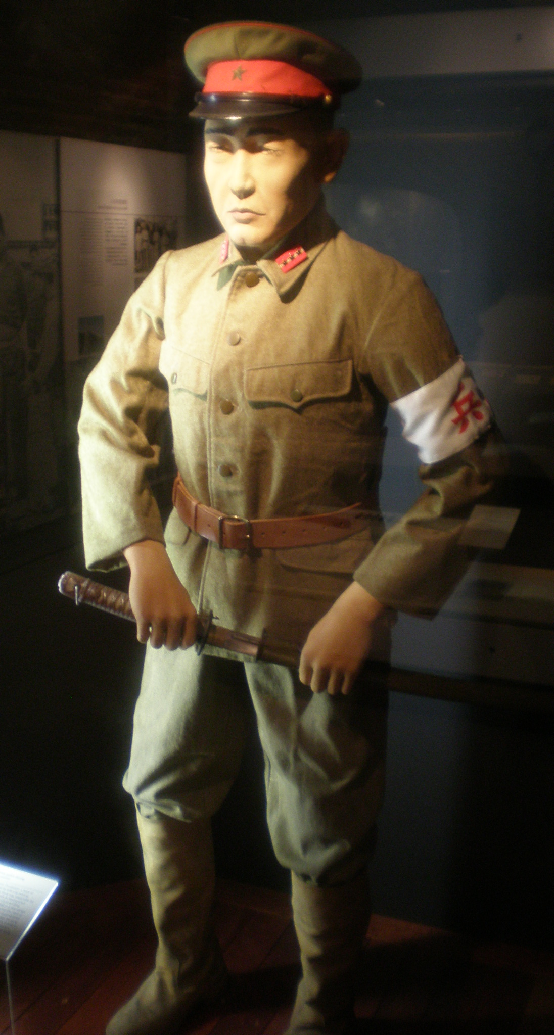 Mockup of a Kempeitai soldier on display at the Hong Kong Museum of Coastal Defence.